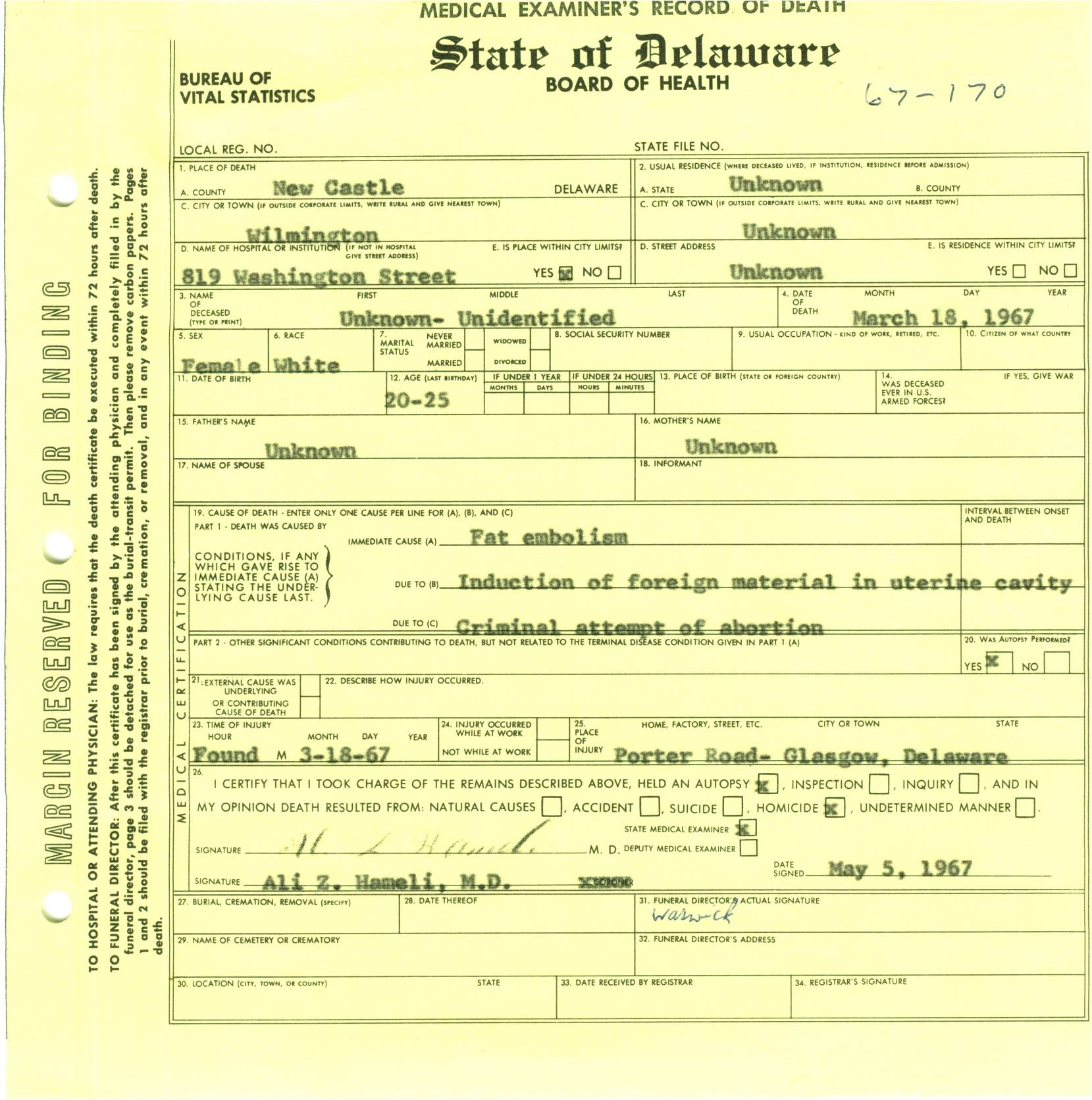 Death certificate of an unidentified female found in Delaware